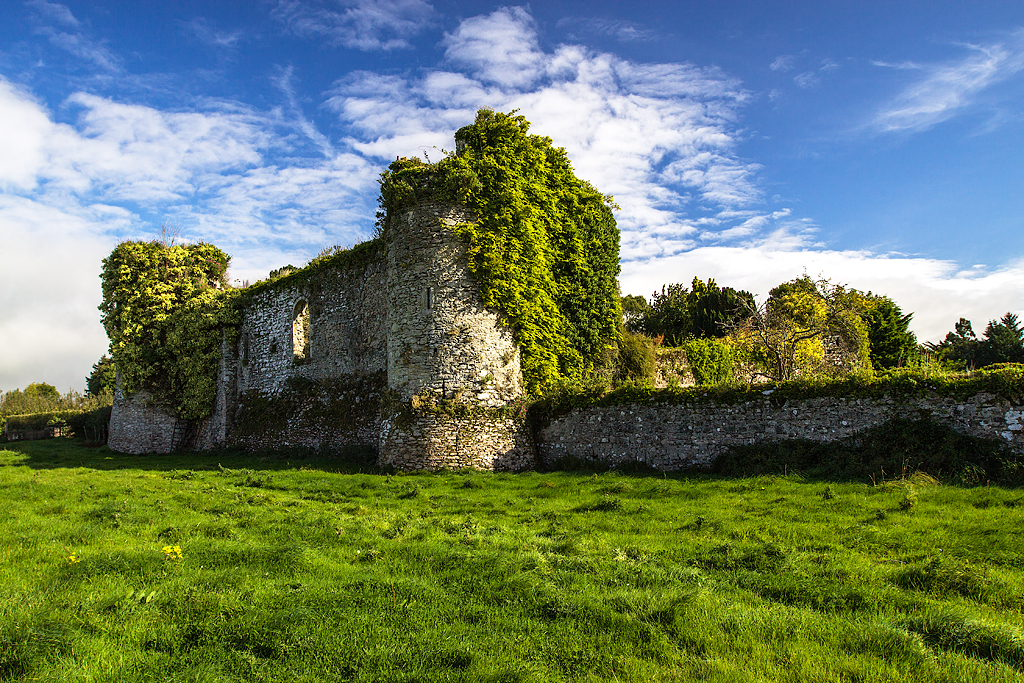 Castles of Munster: Castle Grace, Tipperary Within the grounds of a private house to the north of the Mill River are the remains of a late C13 de Bermingham castle. The two circular corner towers at each end of the curtain wall is the most complete of what remains of a former rectangular court, whose other two corner towers were square in plan. During the 1970s the castle featured as a location for Stanley Kubrick's 1975 film "Barry Lyndon" starring Ryan O'Neal.